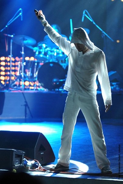 Vukasin Brajic SC concert